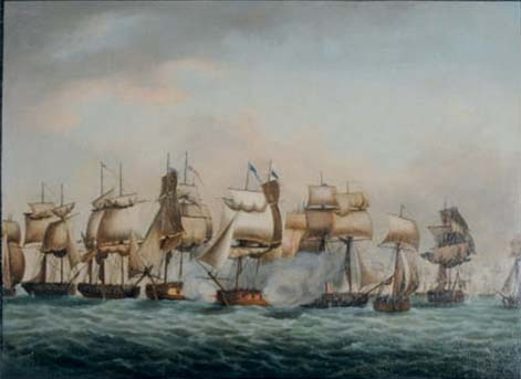 Oil painting of a battle on Lake Erie during the War of 1812